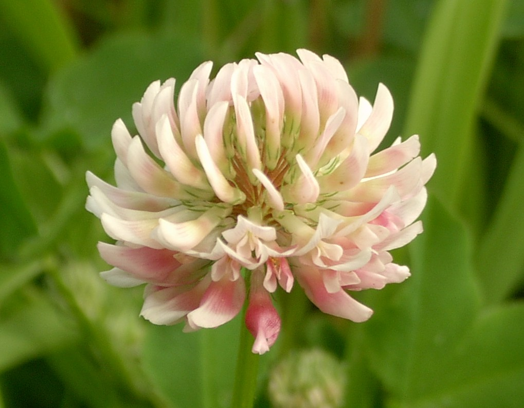 Inflorescence of Trifolium hybridum. Szczecin, NW Poland.